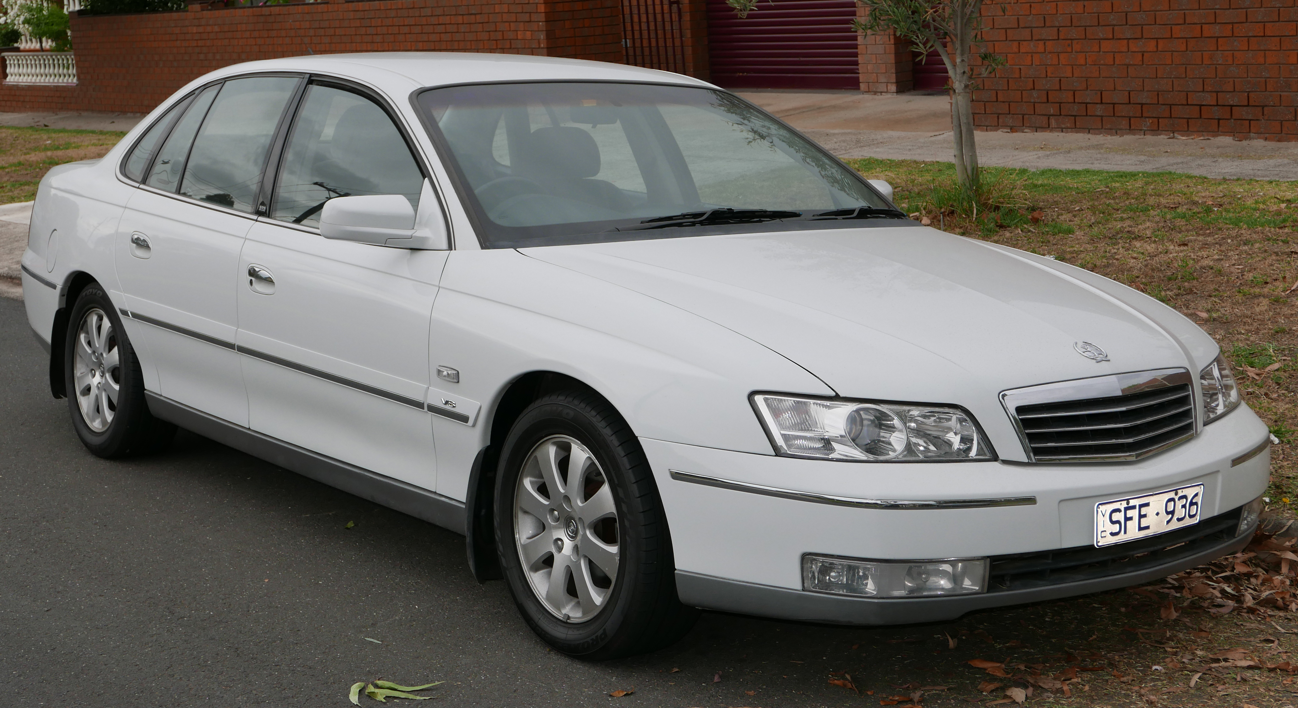 2003 Holden Statesman (WK) sedan. Photographed in Coburg, Victoria, Australia. Vehicle registration enquiry resultsJurisdictionVictoriaRegistrationSFE936Chassis code6G1KY54F44L107629Engine codeVF030580006Compliance date2003-04Year of manufacture2003